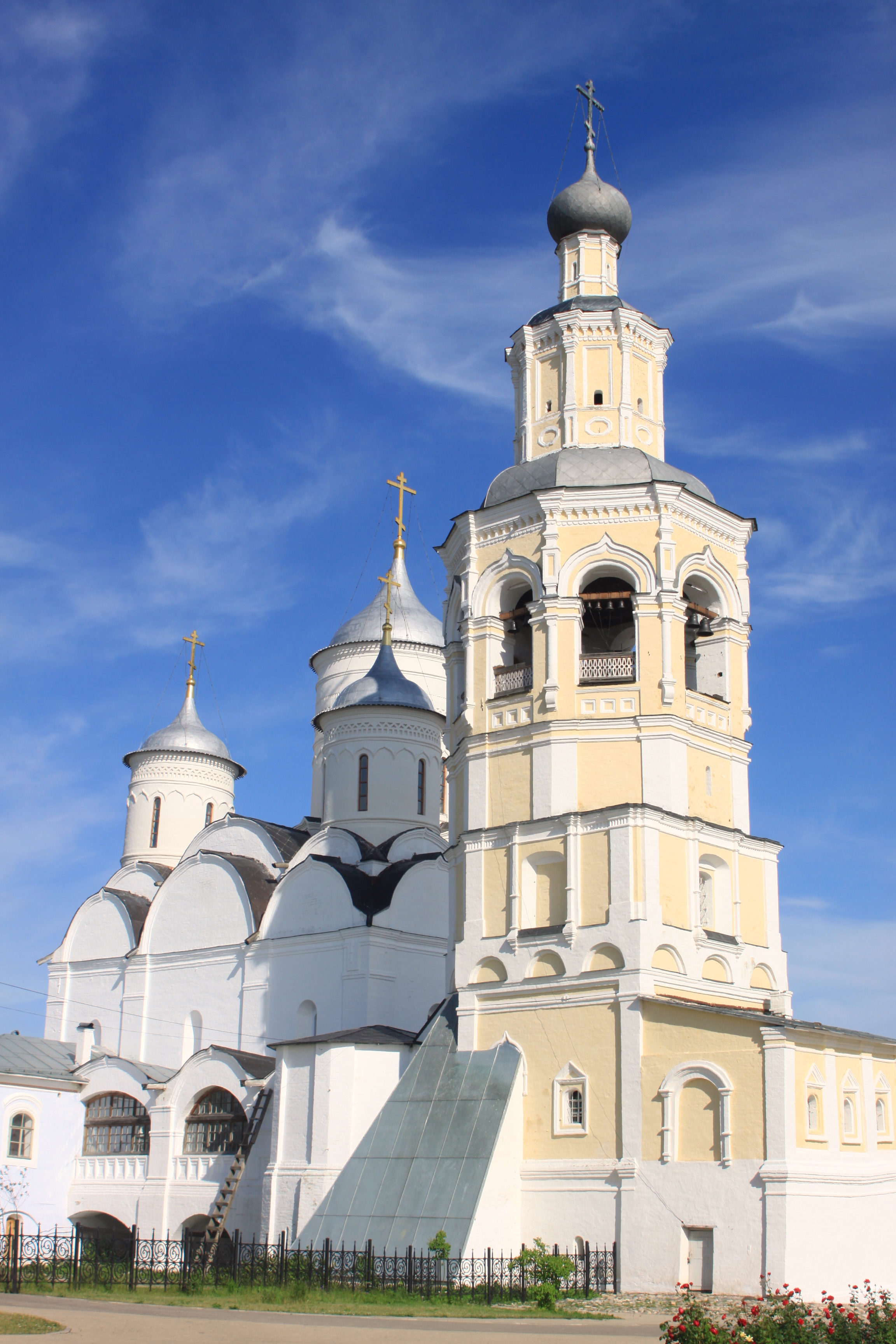 Spassky (Saviour's)_Cathedral_and_its_Belfry (Spaso-Prilutsky monastery)